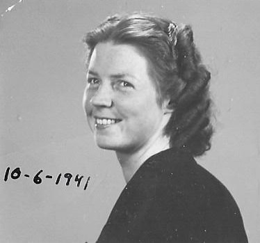 Portrait of Sonja Maria Sjöström. recognized artist in Sweden.